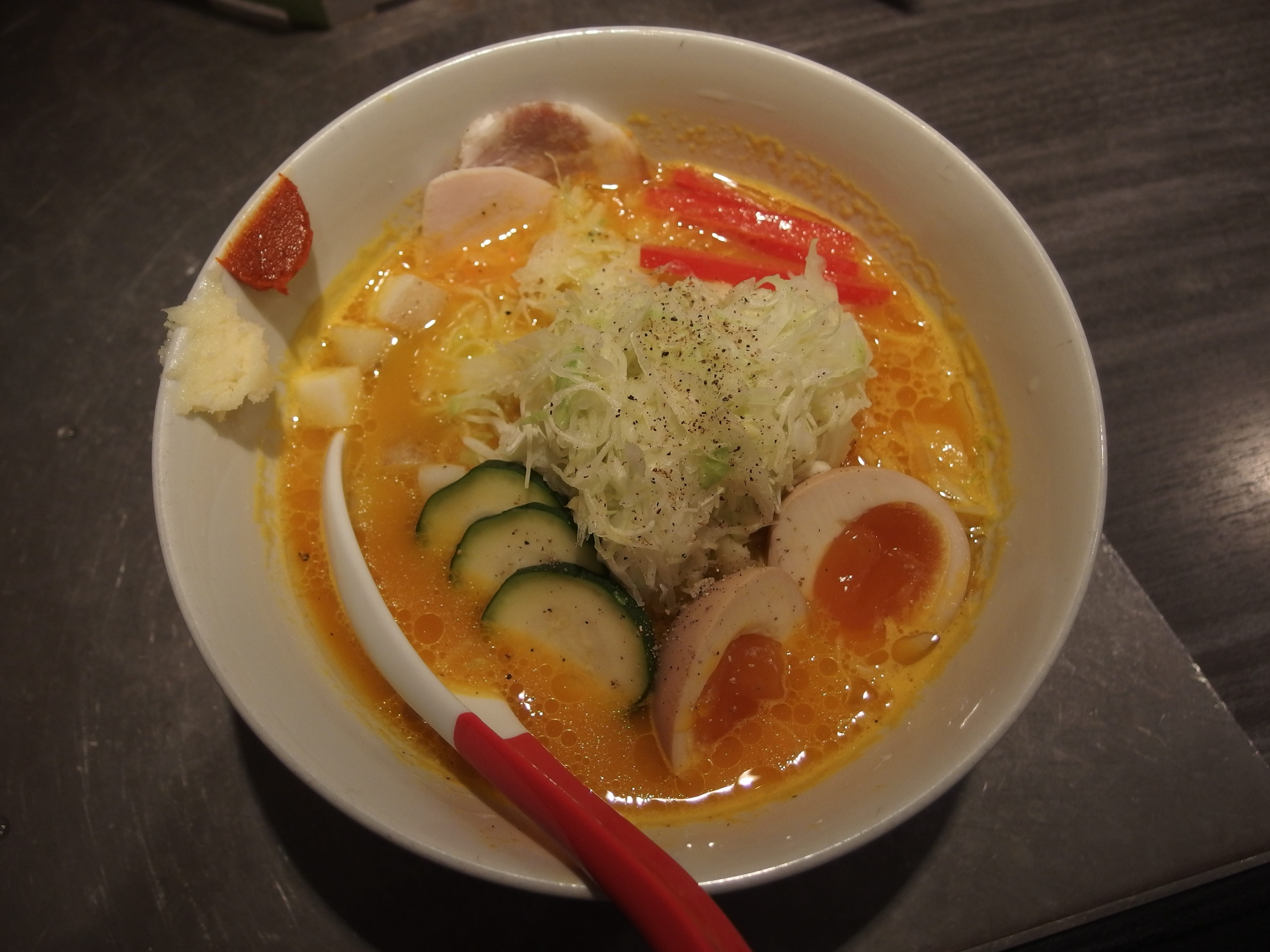 Soranoiro ramen.